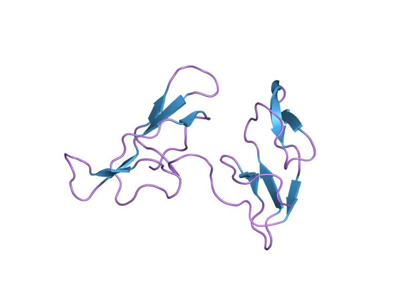 Cartoon representation of the molecular structure of protein registered with 2fj8 code.